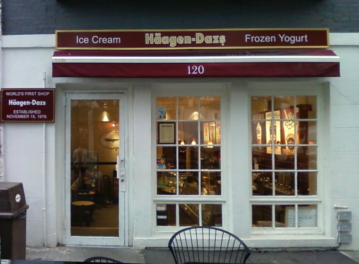 Photograph of Häagen-Dazs' first store location with sign proclaiming the same. Shop is located at 120 Montague Street, Brooklyn, New York.